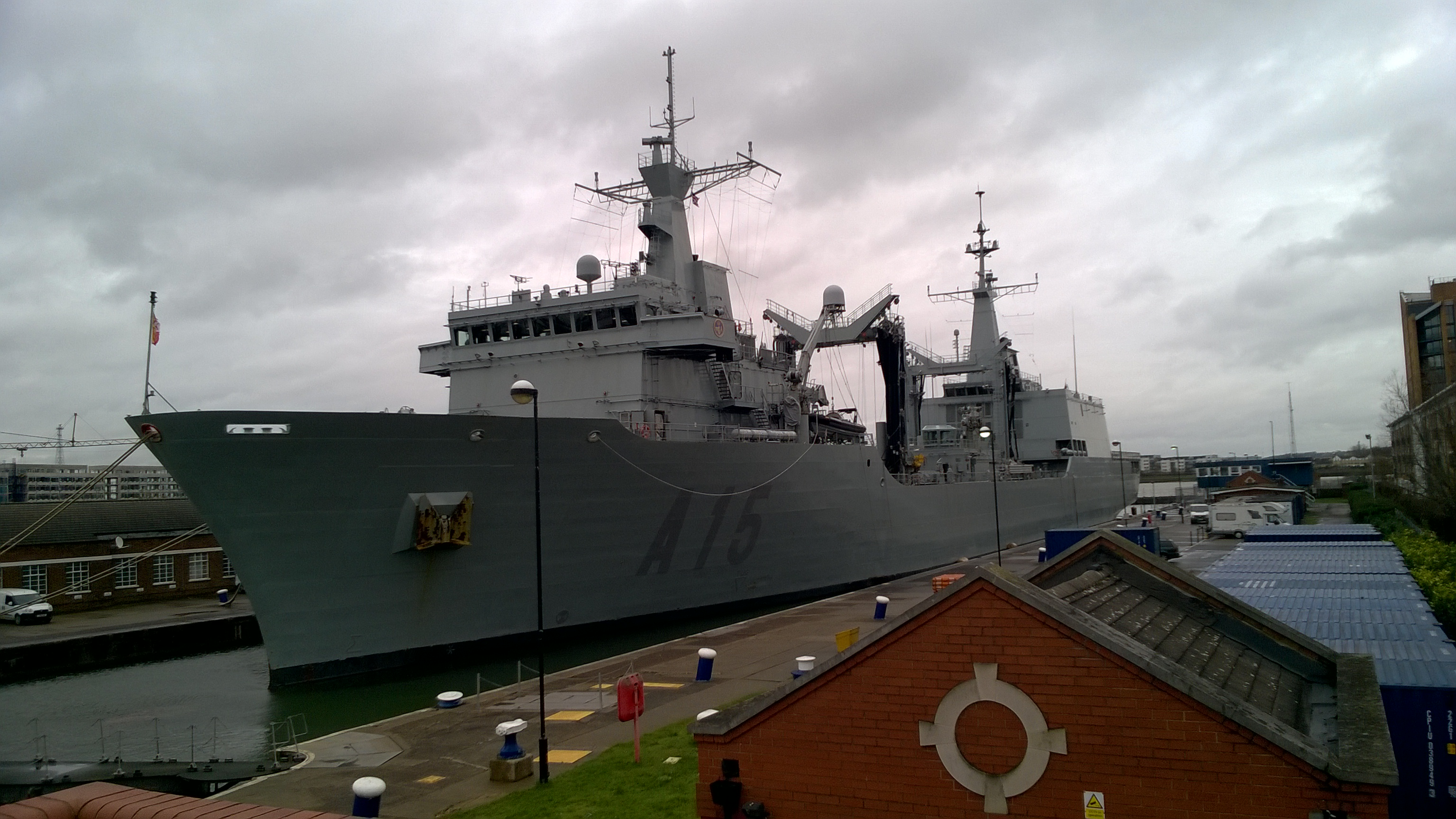 Spanish Navy replenishment vessel Cantabria moored at Gallions Basin in London